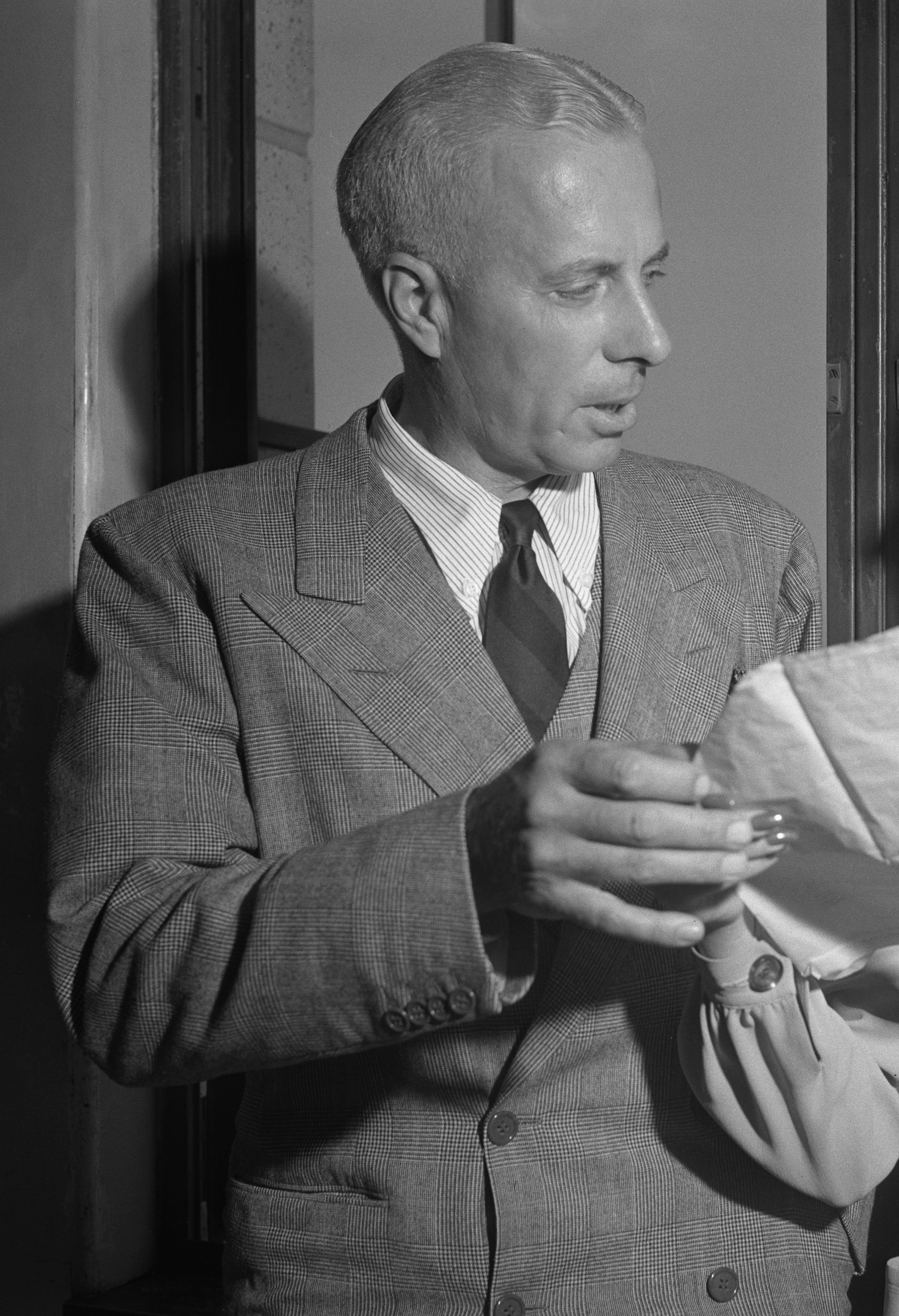 Title: Howard Hawks, circa 1943 (cropped from this wikicommons file) Publication:Los Angeles Daily News Publication date:1943 Original Source:Los Angeles Times photographic archive, UCLA Library